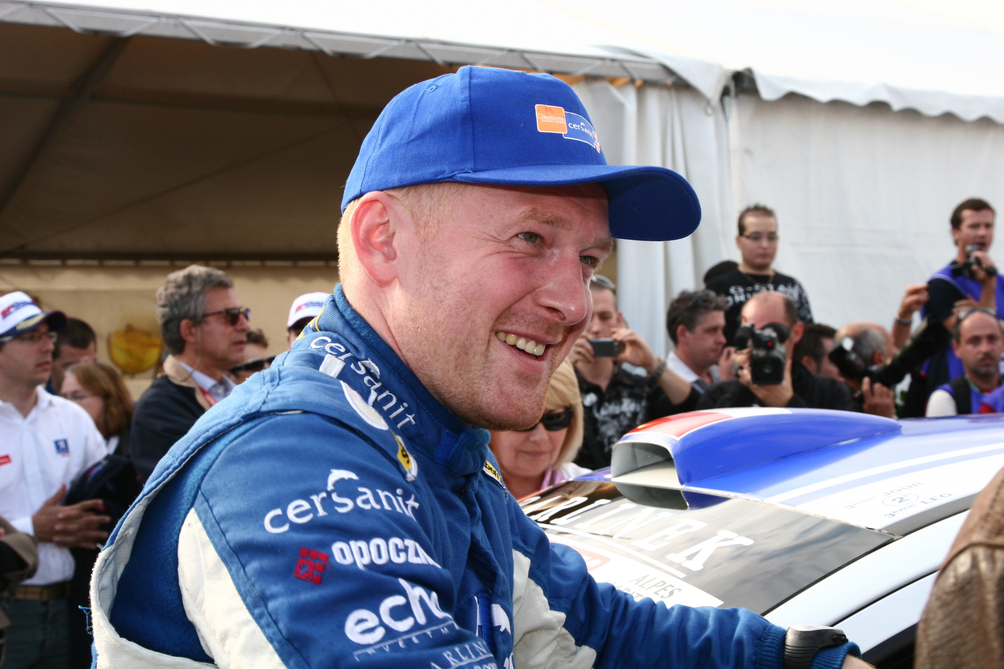 Maciej Baran